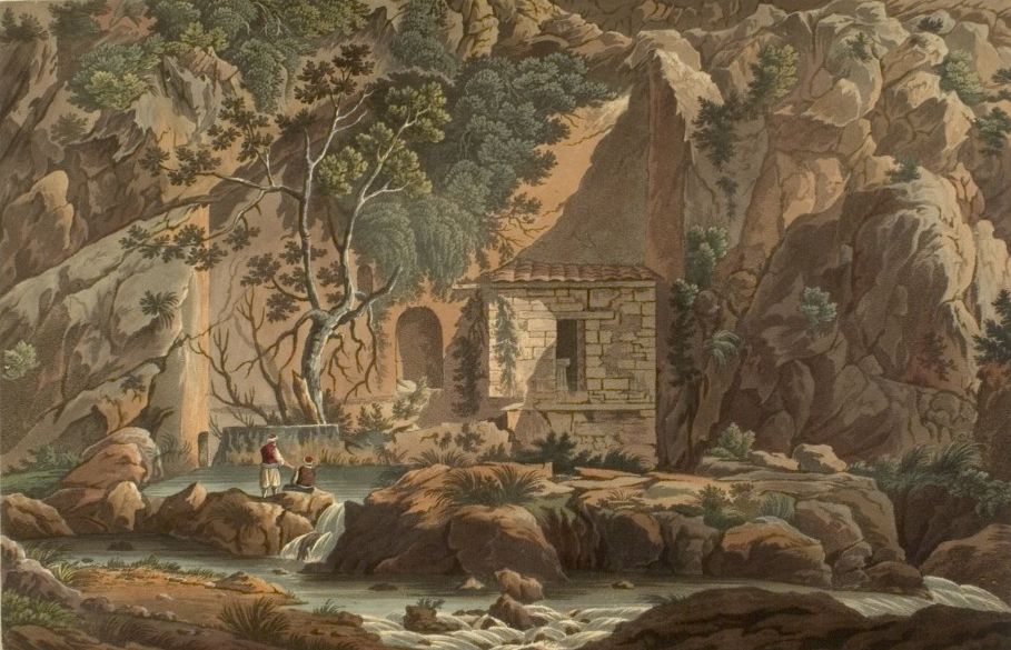 The Kastalian Spring